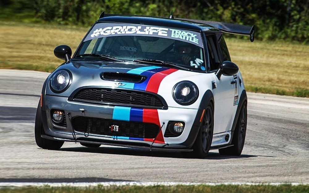 Flying Pigs Racing Driver Ben Marouski participating in the 2017 Gridlife Series. This Mini Cooper S participates in the Street Mod FWD class. The image was taken at Gingerman Raceway, South Haven, MI.